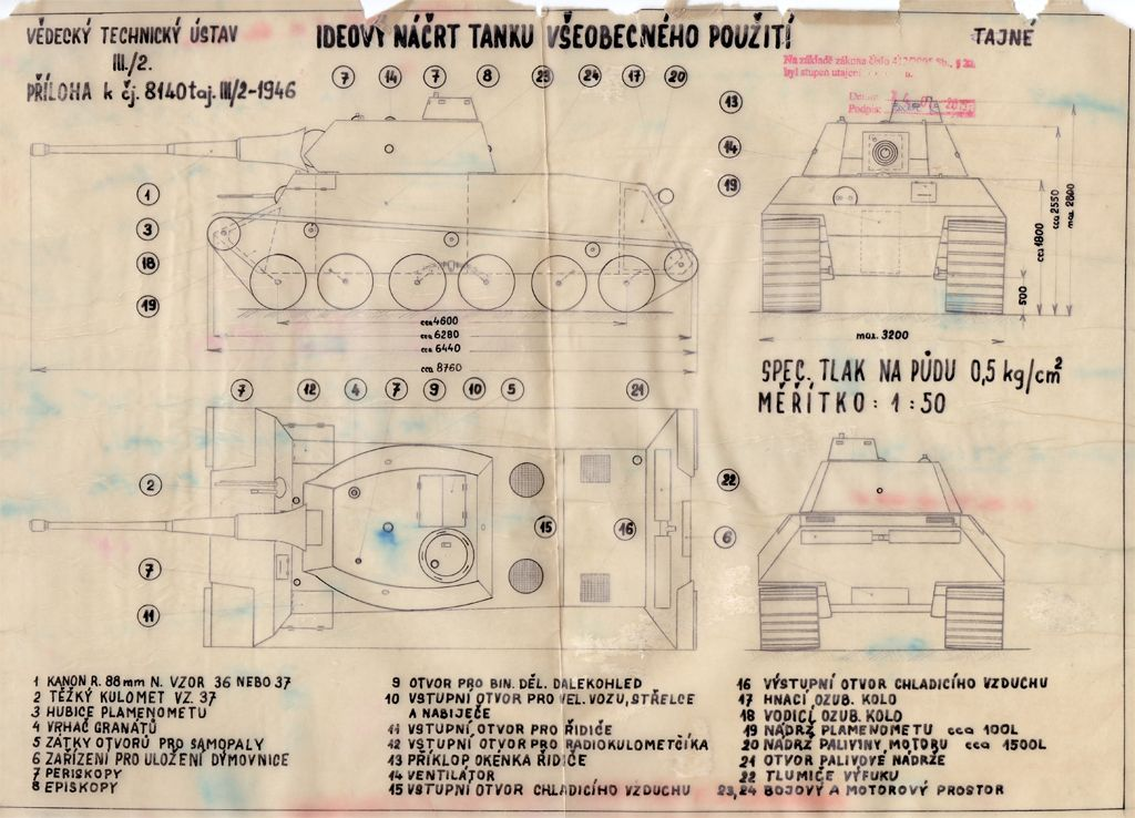 The draft of the TVP tank was introduced on 2 March 1946.